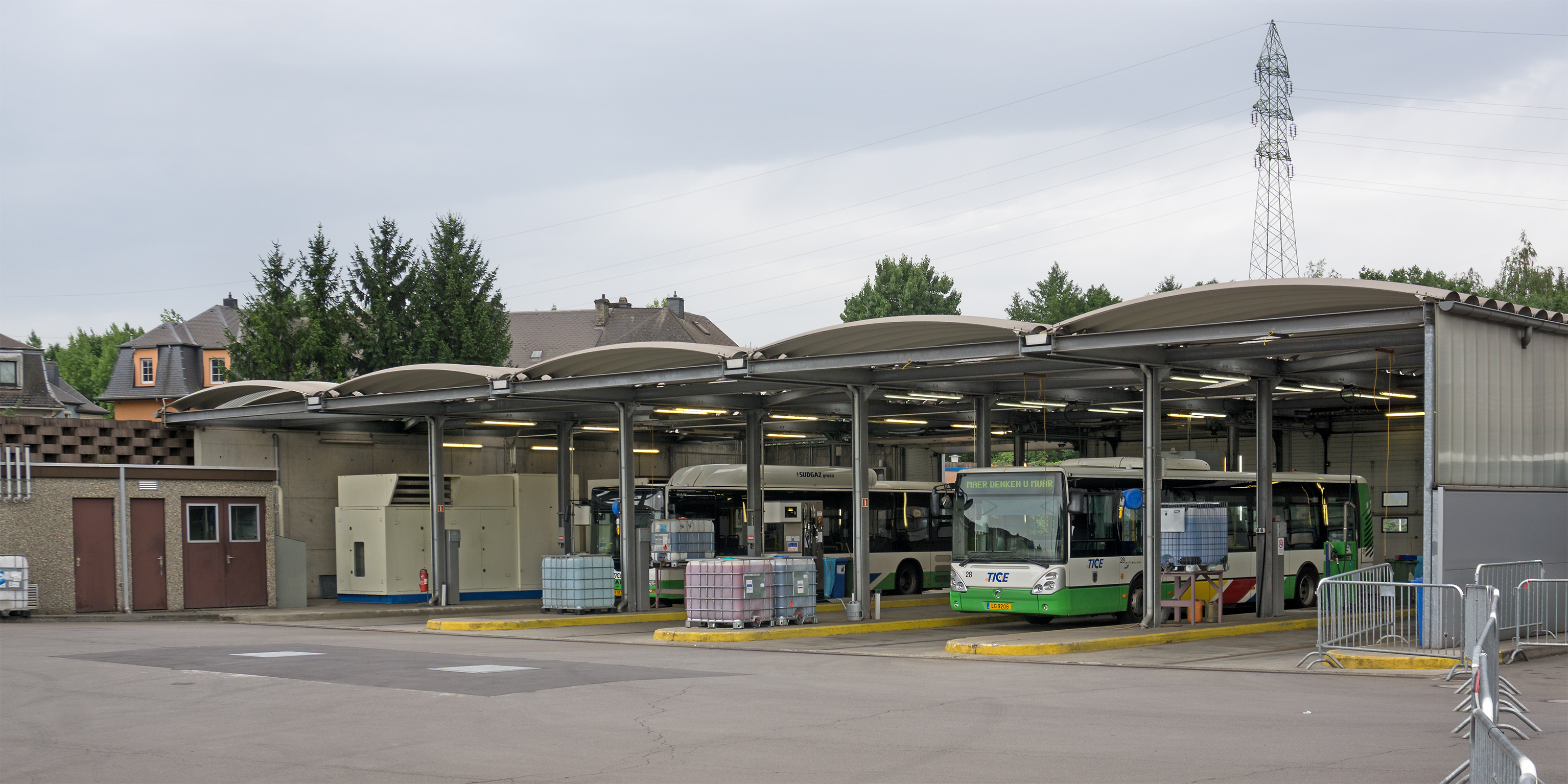 Filling station to replenish the TICE-buses with diesel or natural gas